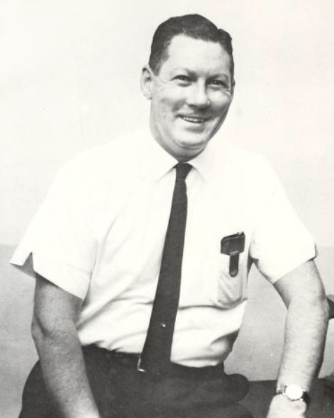 Loyola (Chicago) Univeristy Basketball coach George Ireland in 1963